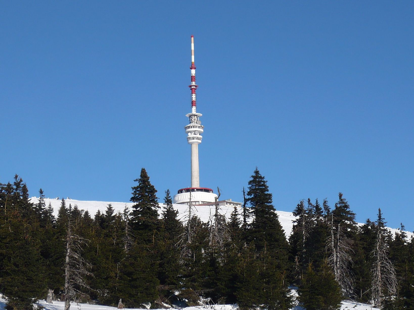 Praded observation and transmitter tower